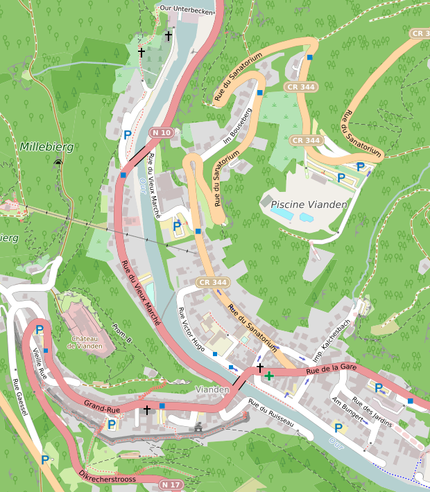 Map of the centre of the city of Vianden, Luxembourg.